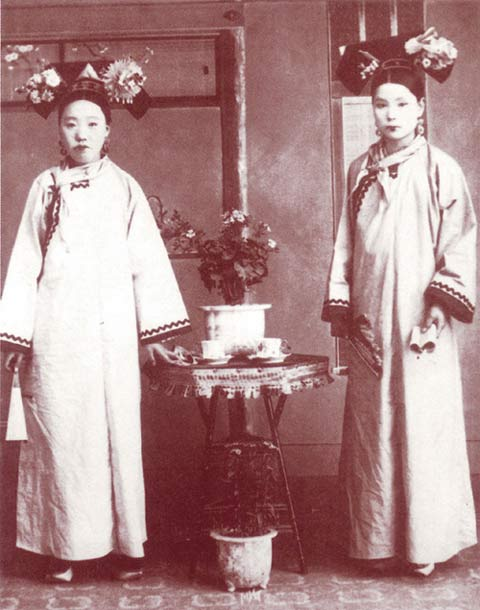 2 ladies of Qing Chinese Imperial Court with Qipao on them.